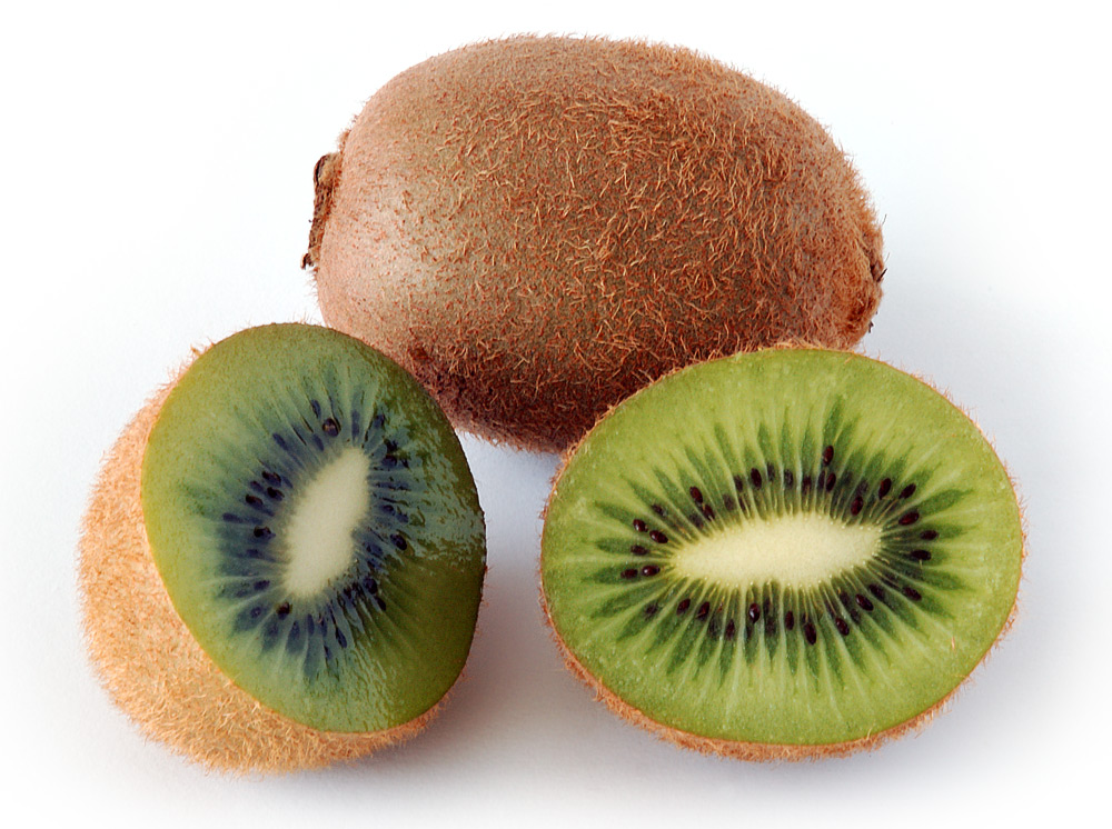 This image shows a whole and a cut kiwifruit.